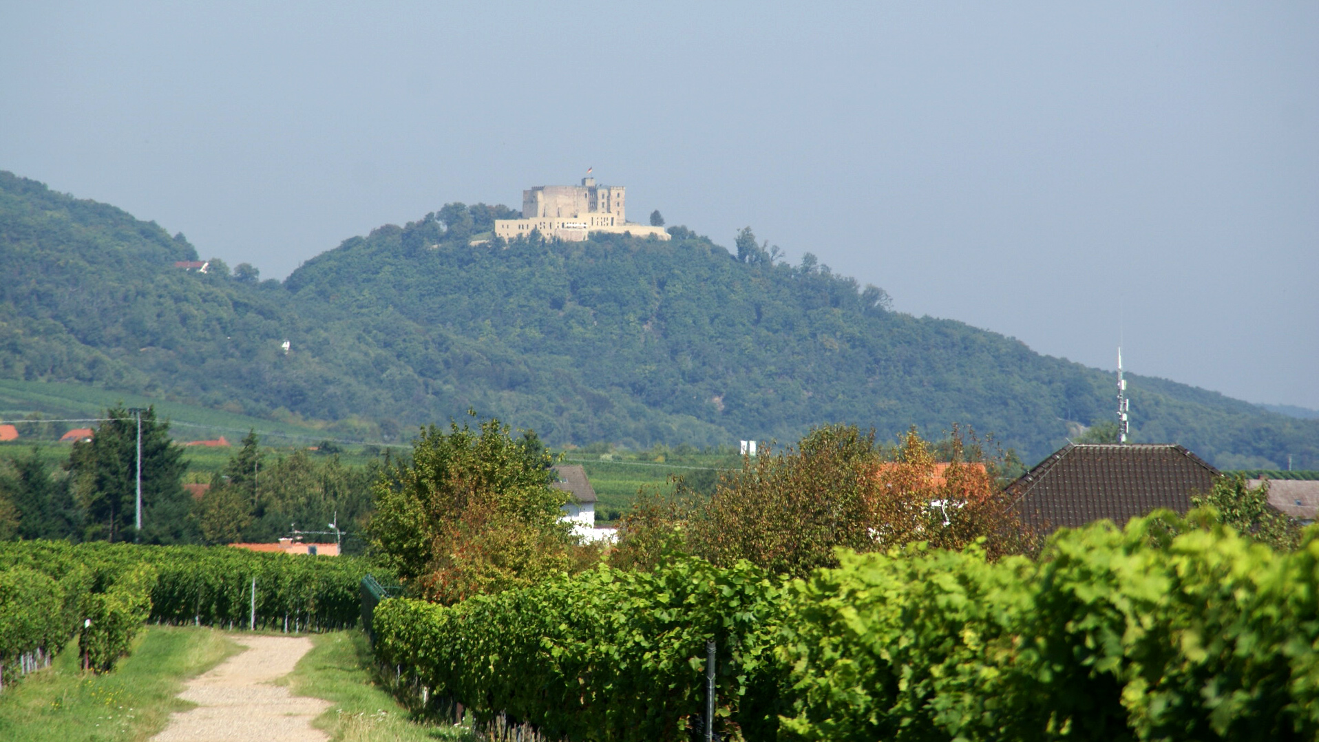 Hambacher Castle as seen from Rhodt unter Rietburg (Germany)